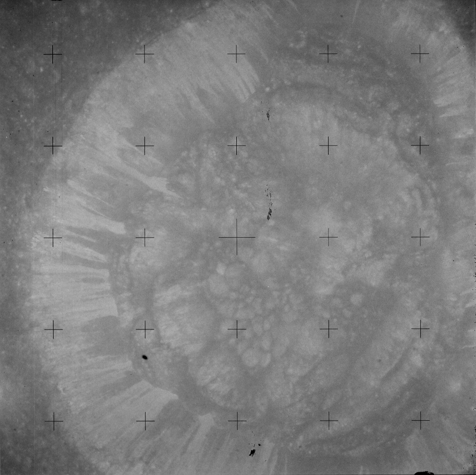 Carrel, on the moon.